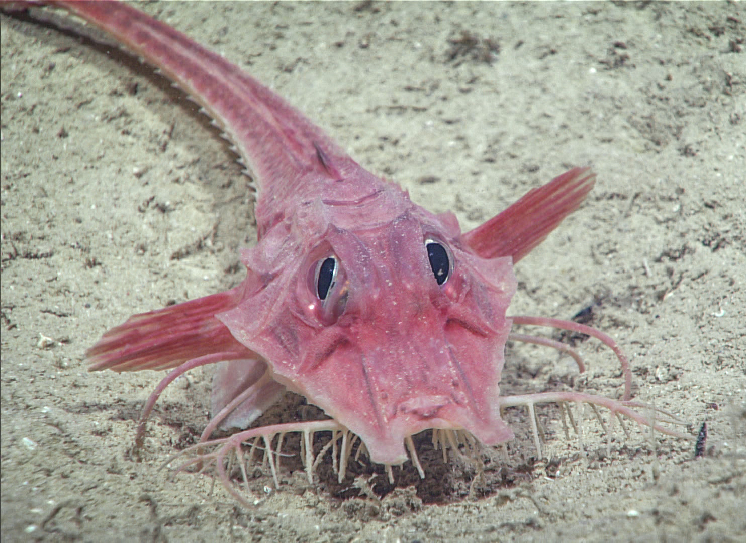 A number of these unusual looking creatures were seen on the seafloor during Dive 09 of the 2019 Southeastern U.S. Deep-sea Exploration. These armored searobins (Triglidae) use modified fins to move across the seafloor and branched "whiskers" in front of their mouths to help them sense food. Image courtesy of the NOAA Office of Ocean Exploration and Research, 2019 Southeastern U.S. Deep-sea Exploration. Learn more about the expedition: [Source: ]